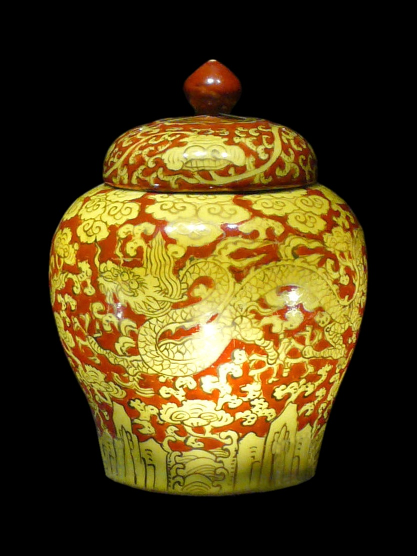 Palace Museum, Beijing. Covered red jar with yellow design of dragon and sea Jiajing Reign, Ming Dynasty. 1521-1567.